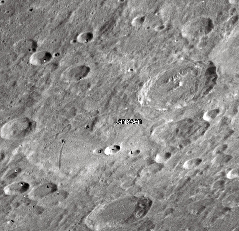 Janssen lunar crater as seen from Earth with satellite craters labeled